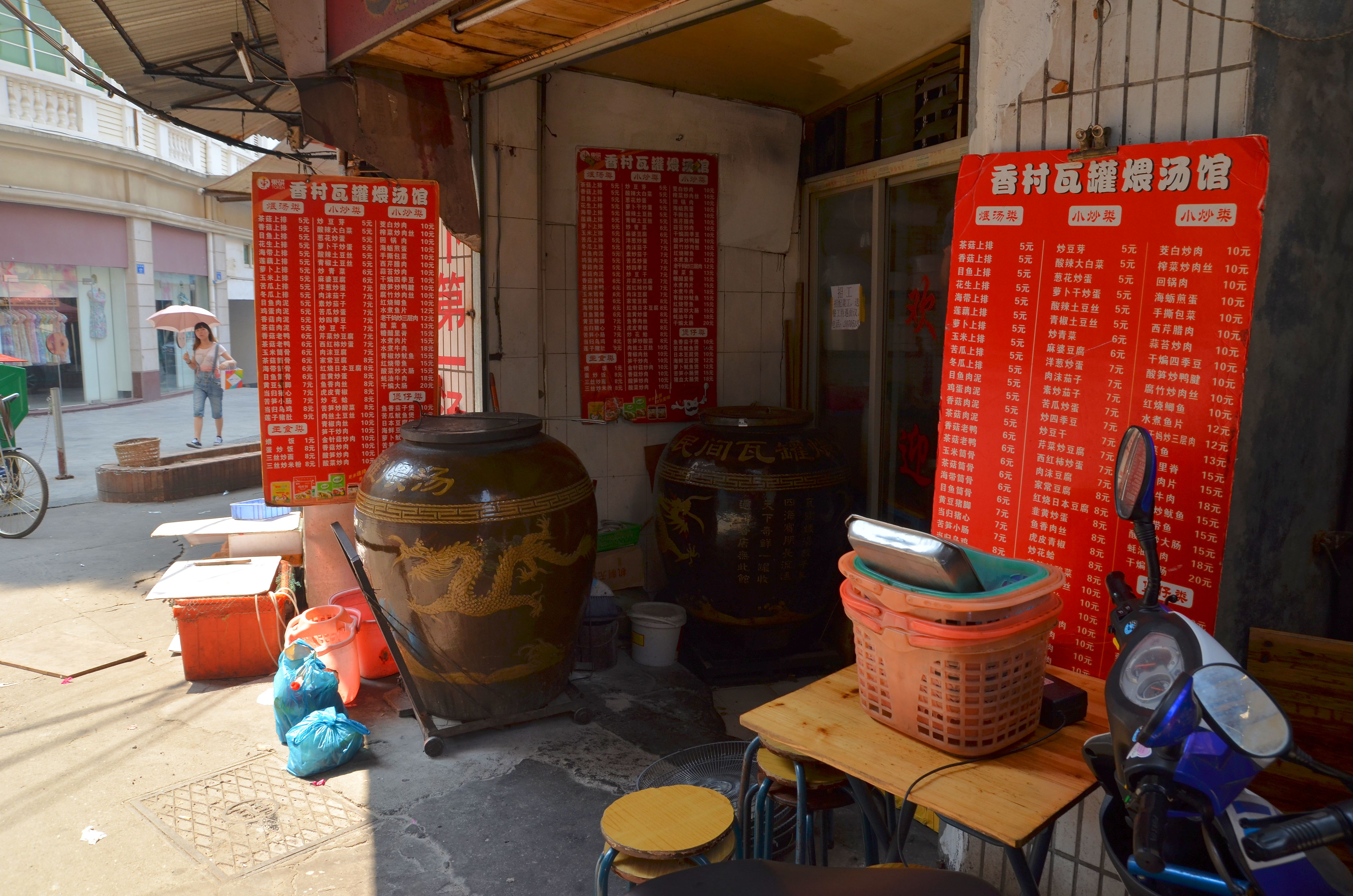 Xiamen, South-East of China, big ceramic jar (瓦罐) soups speciality.